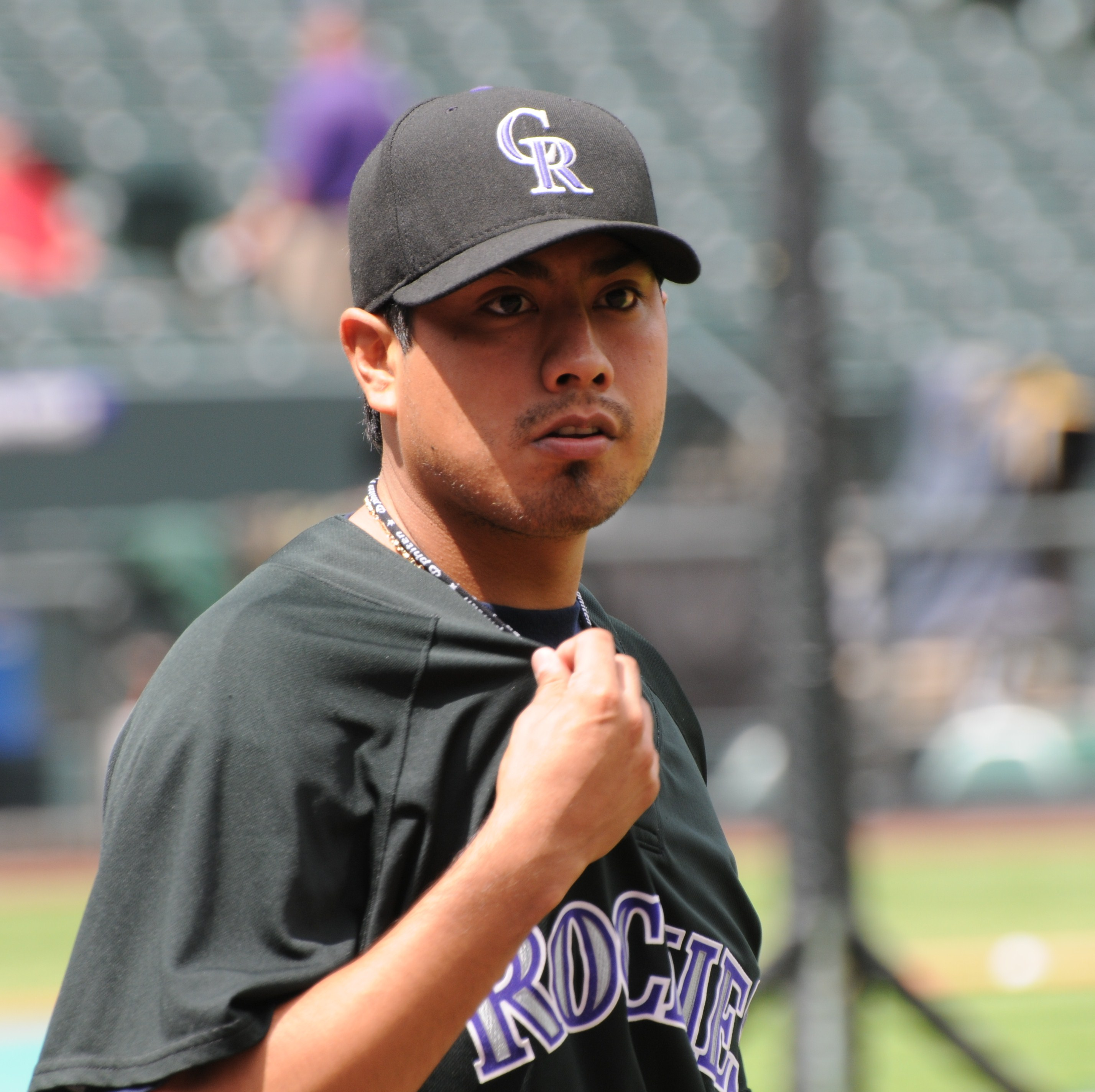 Description own work DateSourceI created this work entirely by myself.AuthorOnetwo1 (talk) 15:37, 8 August 2008 . . Onetwo1 . . 2,856×2,847 (934 KB) own work